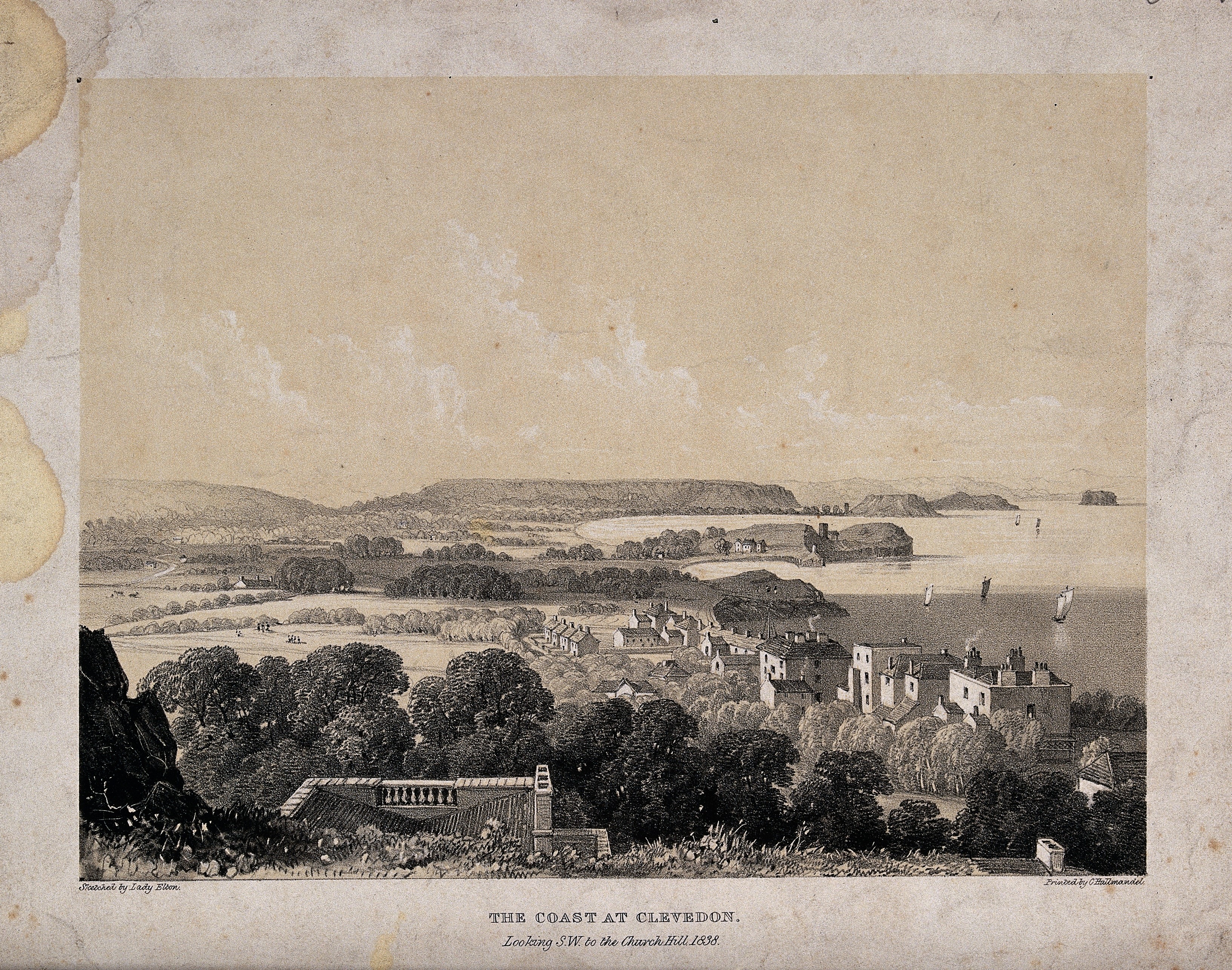 A coastal bay at Clevedon in Somerset. Lithograph after a sketch by Lady Elton, 1838. Iconographic Collections Keywords: Mary Elton